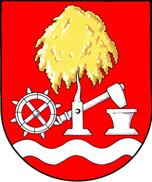 Municipal coat of arms of Březová village, Karlovy Vary District, Czech Republic.